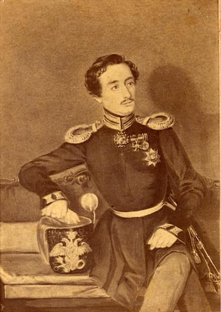 David Dadiani